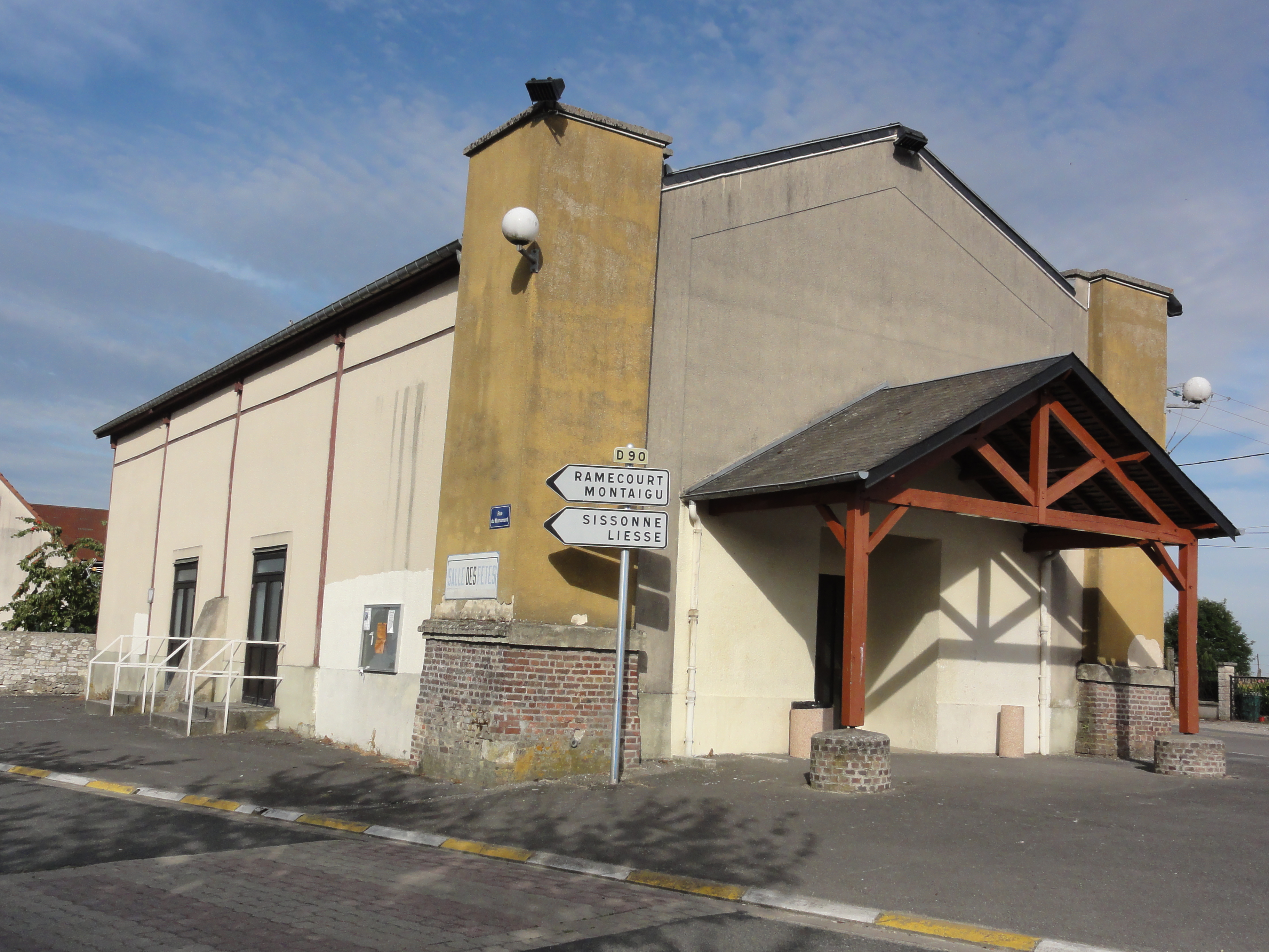 Saint-Erme-Outre-et-Ramecourt (Aisne) salle des fêtes